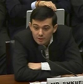 Martin Shkreli at the Developments in the Prescription Drug Market: Oversight hearing, 2016